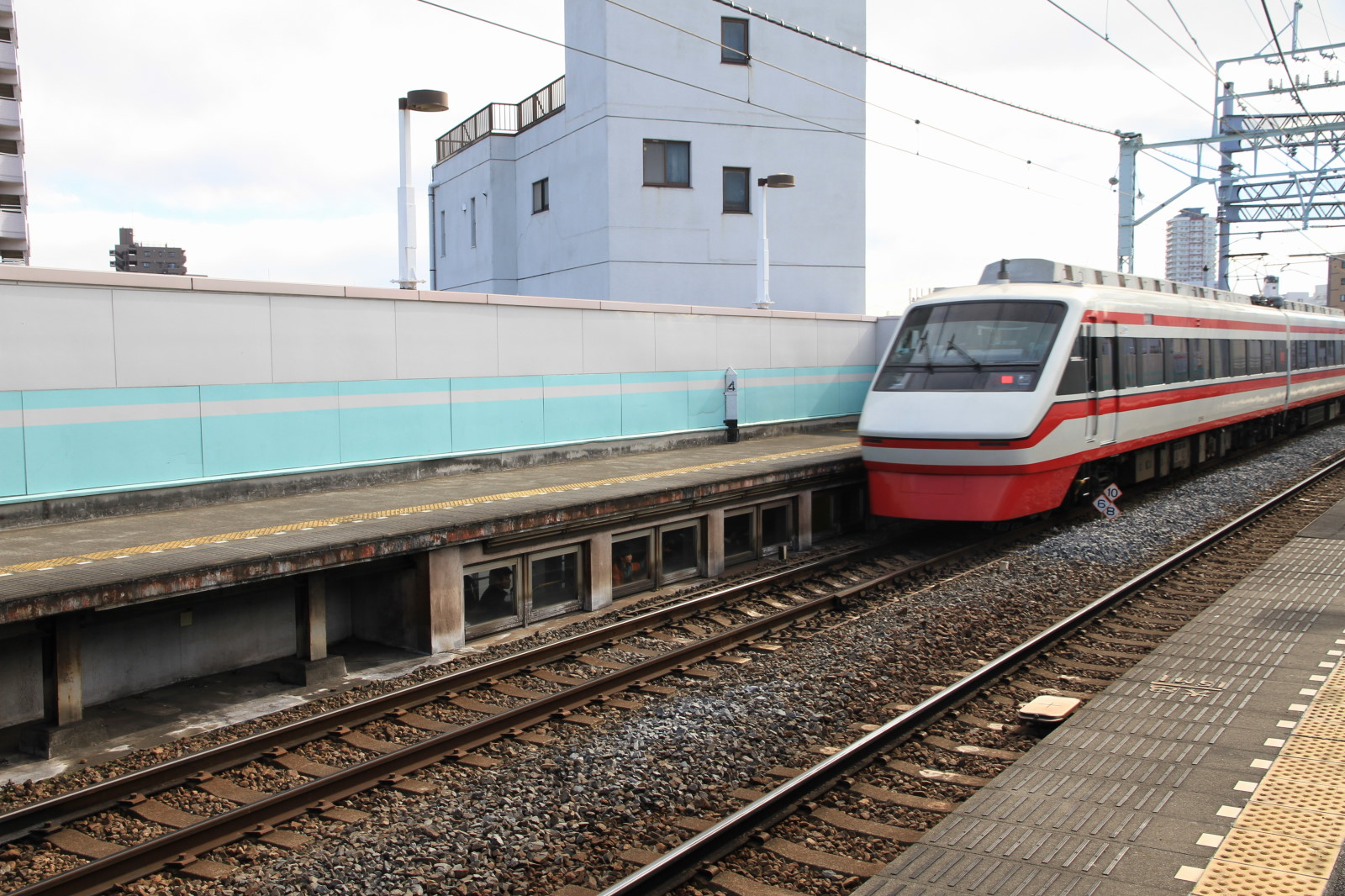 Higashi-Mukojima Station on the Tobu Isesaki Line in Tokyo, Japan, with viewing windows from the Tobu Museum visible beneath the platform